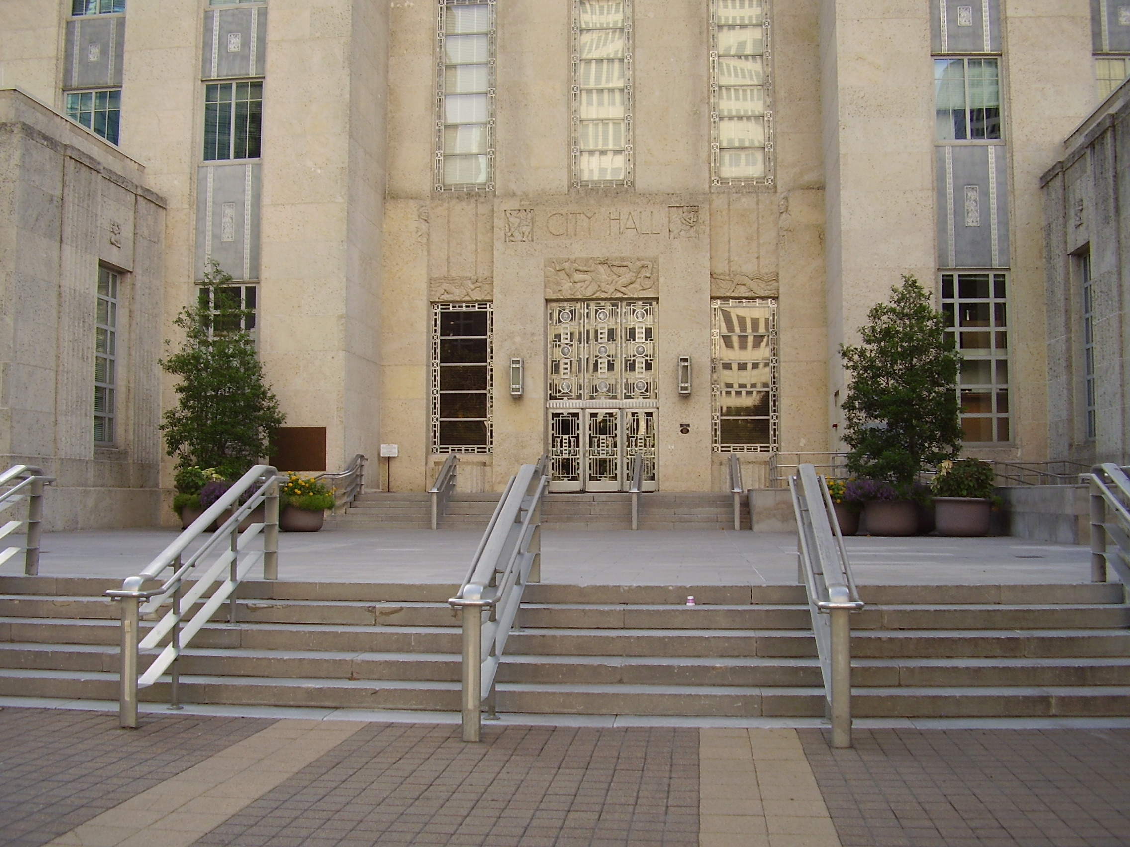 Houston City Hall Entrance